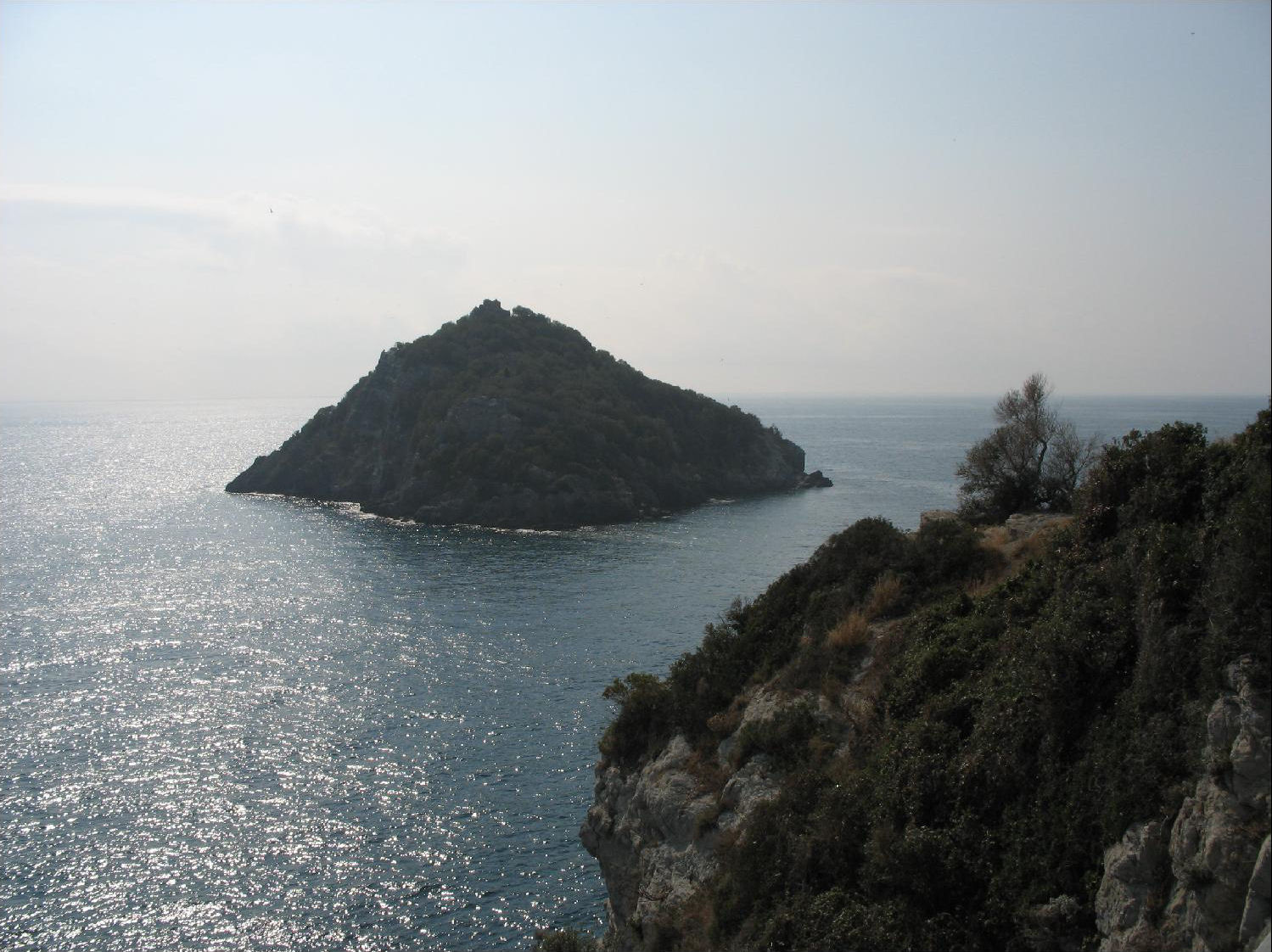 Bergeggi: island. This is a photography of Natura 2000 protected area with ID IT1323202